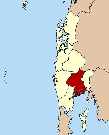 Map of Phang Nga province, Thailand, highlighting the district Mueang Phang Nga (geocode 8201).